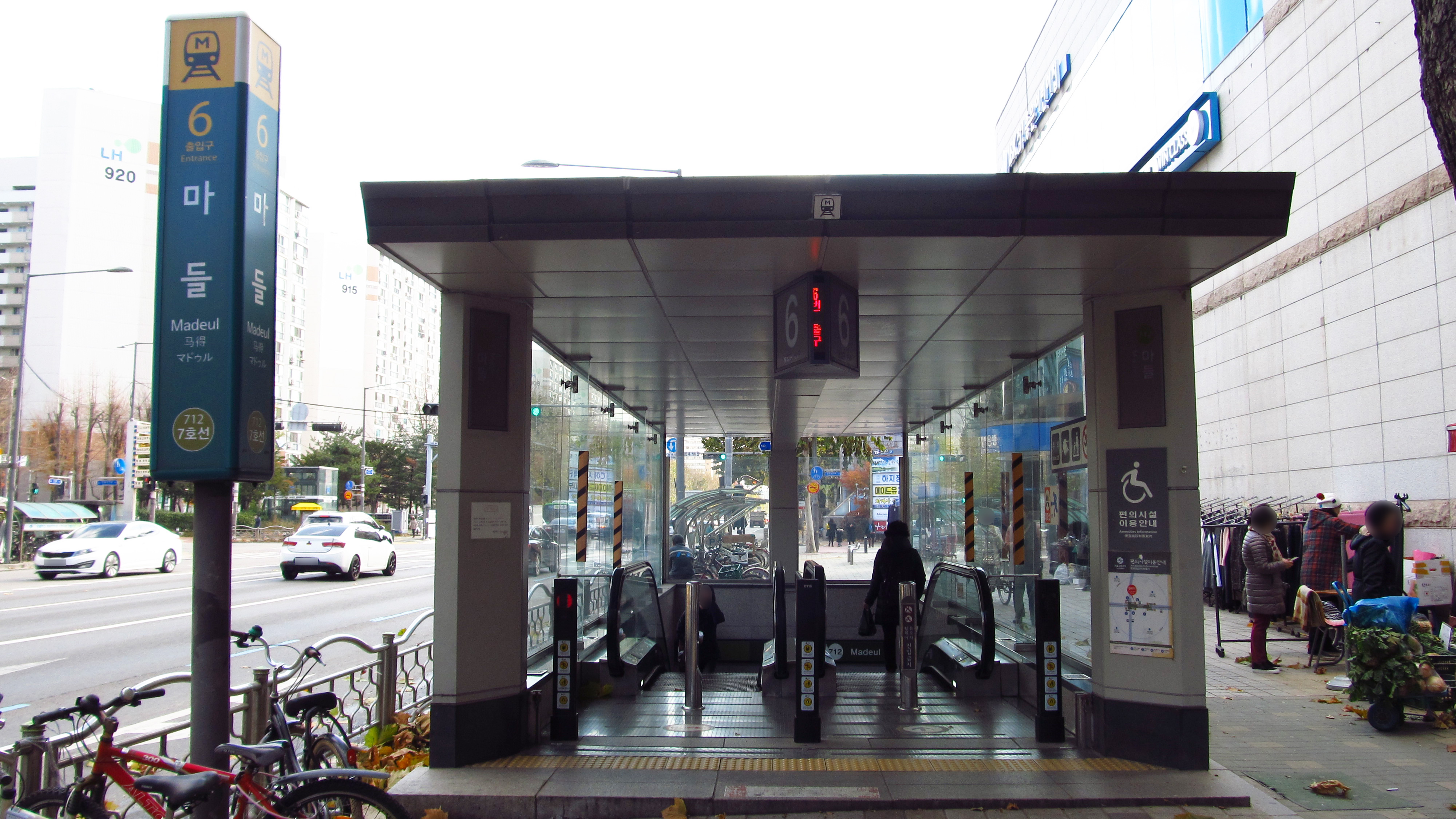 The no.6 entrance to Madeul Station on Seoul Subway Line 7 in Nowon-gu, Seoul, Republic of Korea(South Korea)